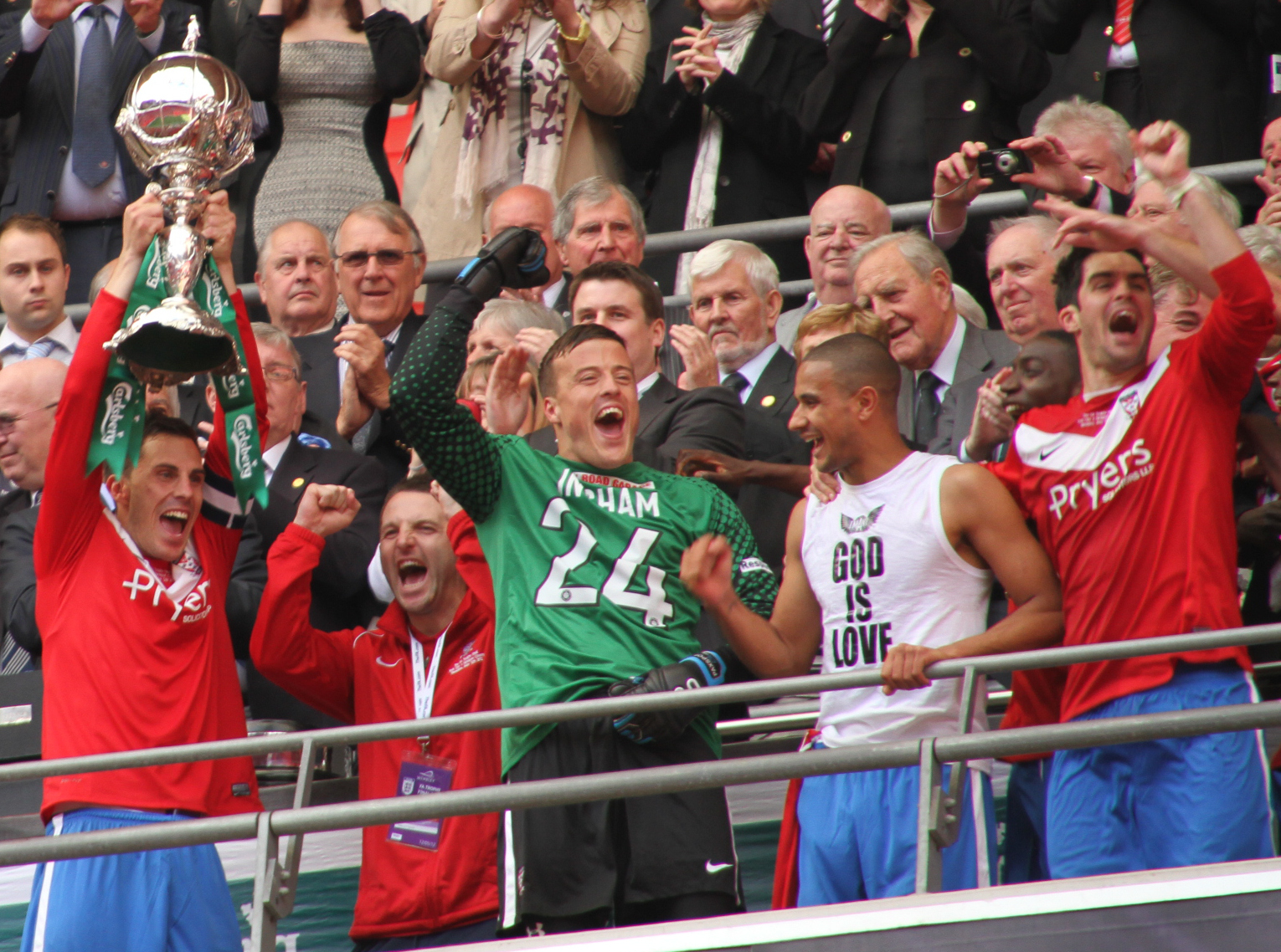 York City players with the FA Trophy. Cropped from original.